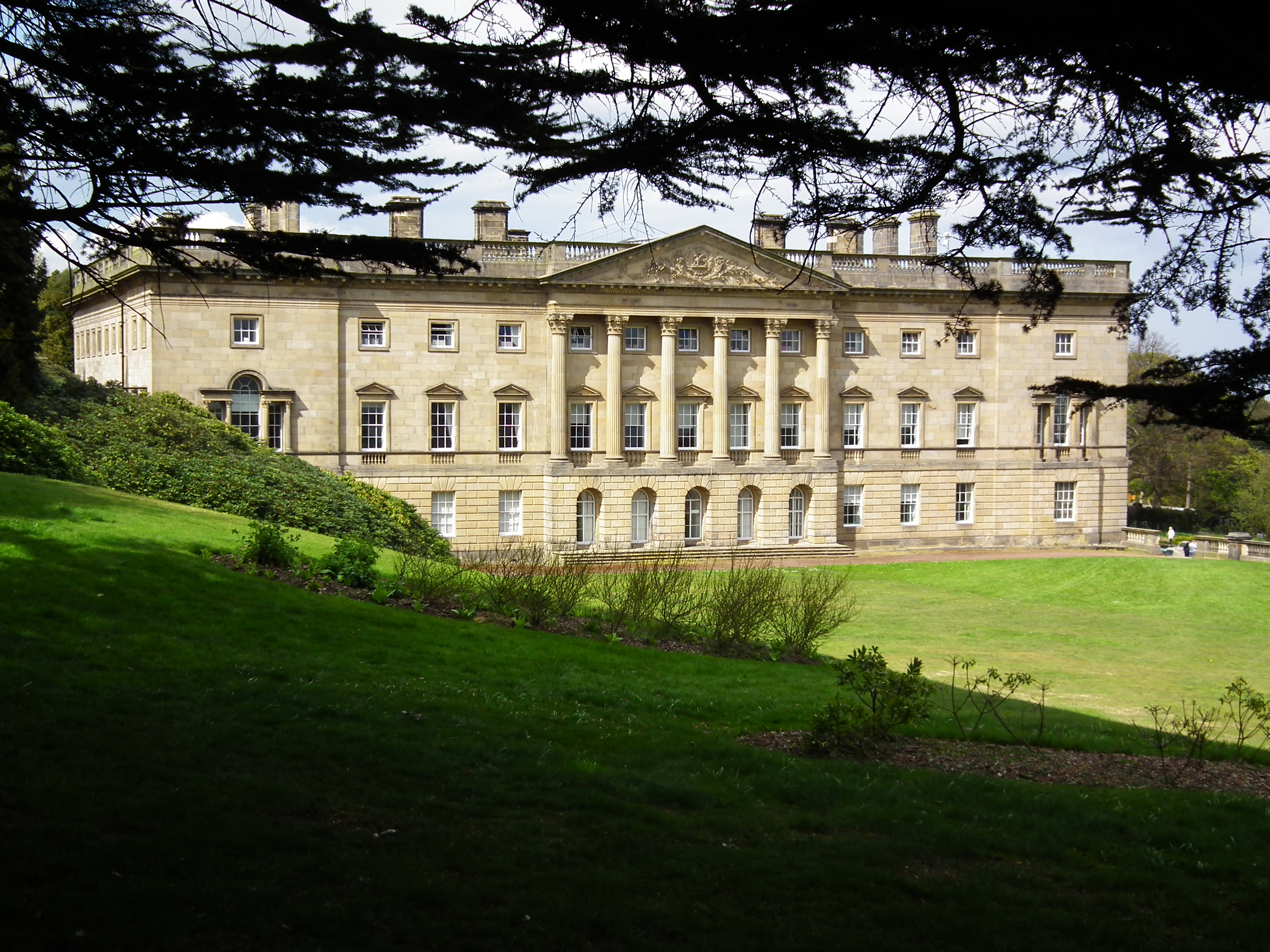 View across the lawn to The Northern College